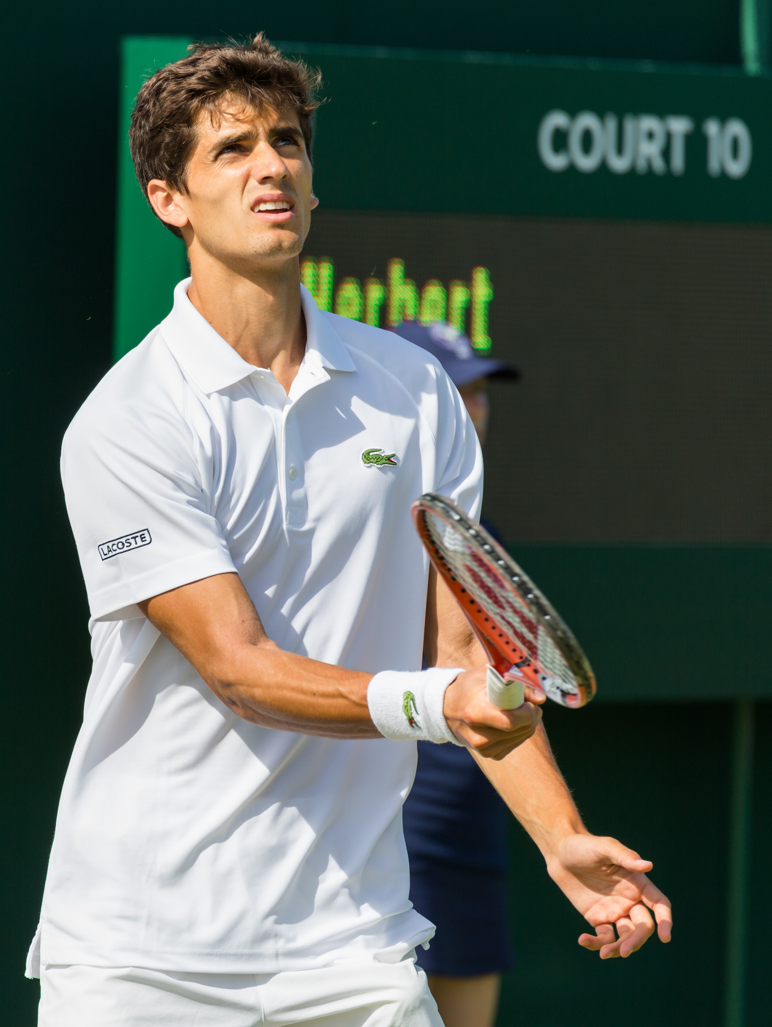 Pierre-Hugues Herbert competing in the first round of the 2015 Wimbledon Championships.